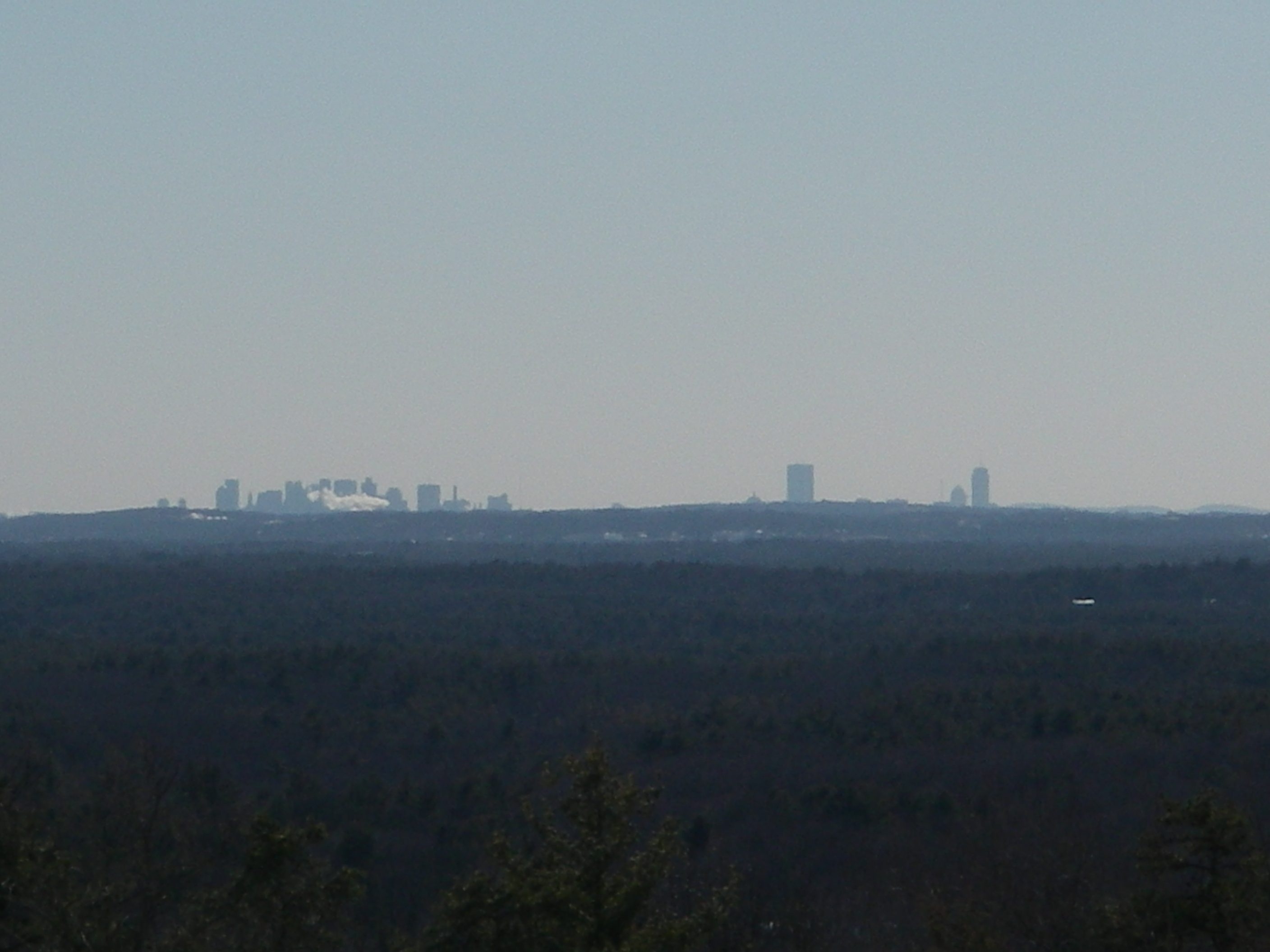 I took this photo on top of Holt Hill